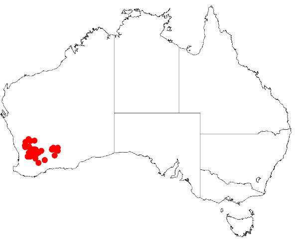 Acacia sericocarpa Occurrence data from Australasia Virtual Herbarium downloaded from on 8 December 2018